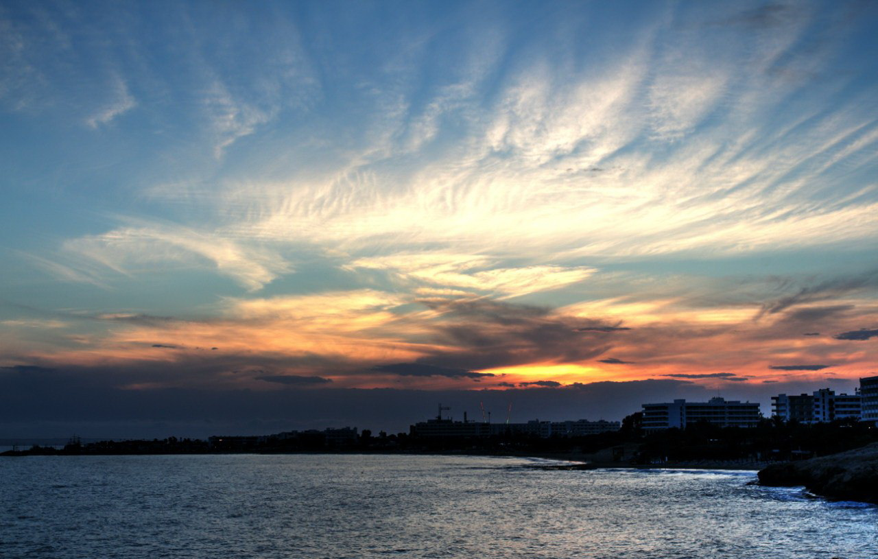 Sunset in Aya Napa.